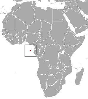 Sao Tome Shrew (Crocidura thomensis) range